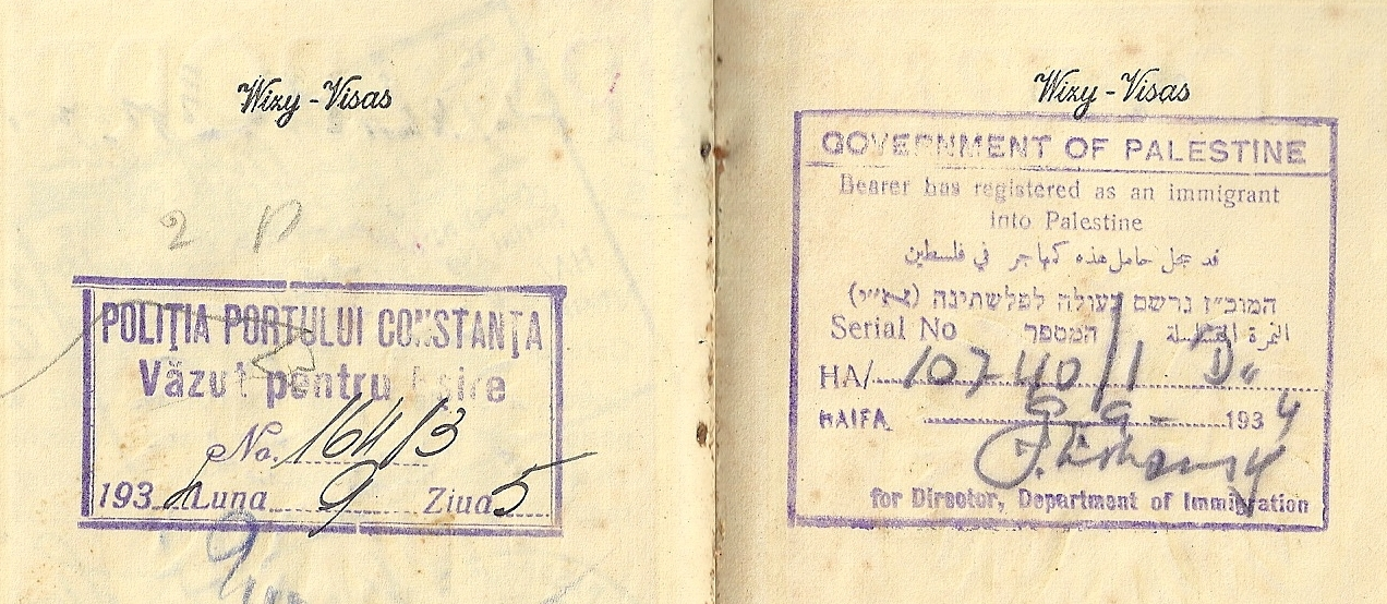 A page from a passport issued by the Polish Republic to a couple of Jews who decided to emigrate to British Mandate Palestine and join their children in Tel Aviv (September 1934). A Romanian stamp indicating passing through the Constanţa harbor is shown on the left, entry stamp as immigrants on the right.